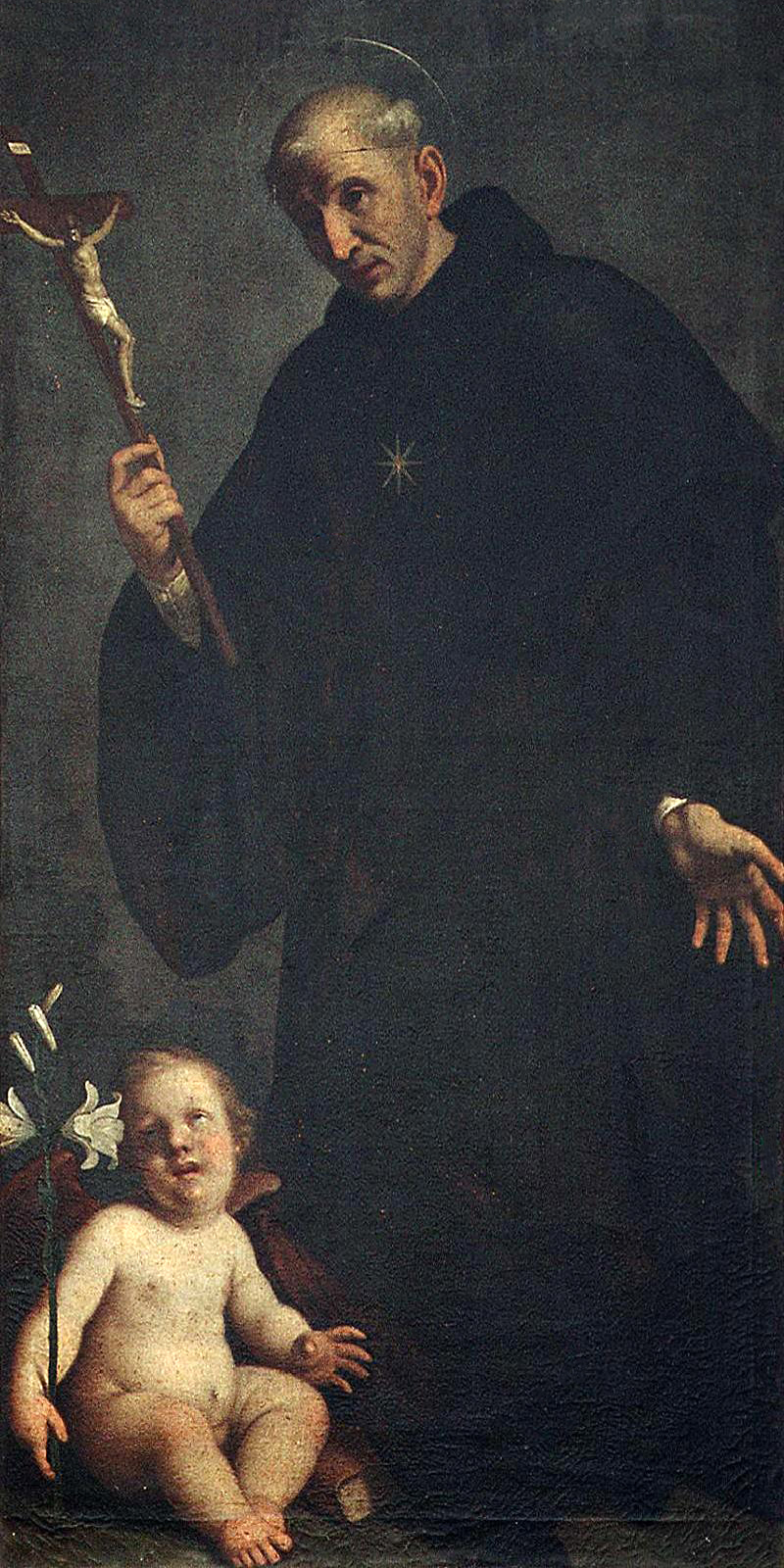 Nicholas of Tolentino with angel